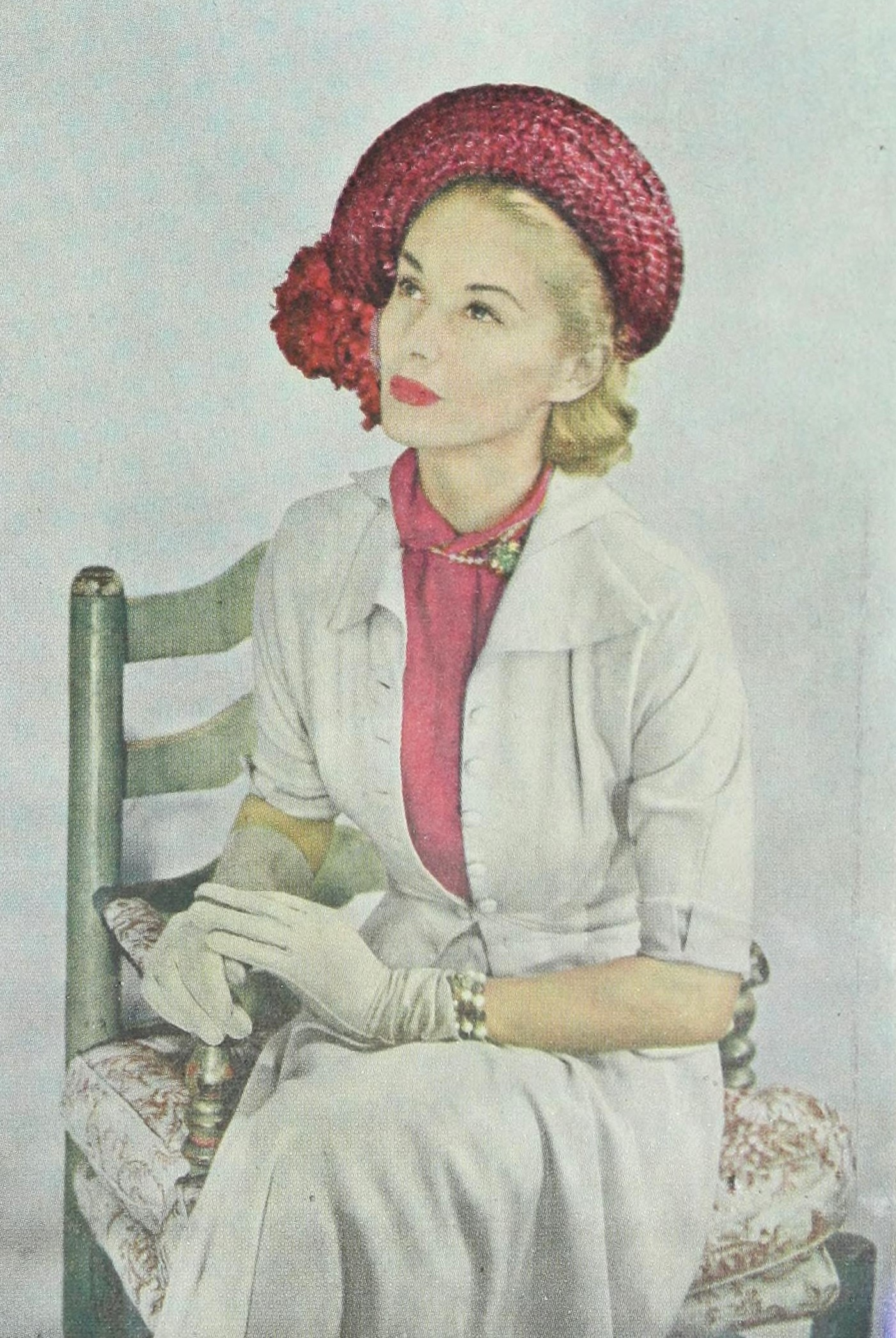 Dress by Adele Simpson, hat by Braagaard, juwels by Seaman Schepps. Advertisement in Ladies' Home Journal, 1948